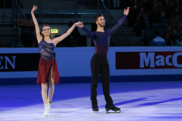 Gabriella Papadakis and Guillaume Cizeron at the 2016 European Championships.